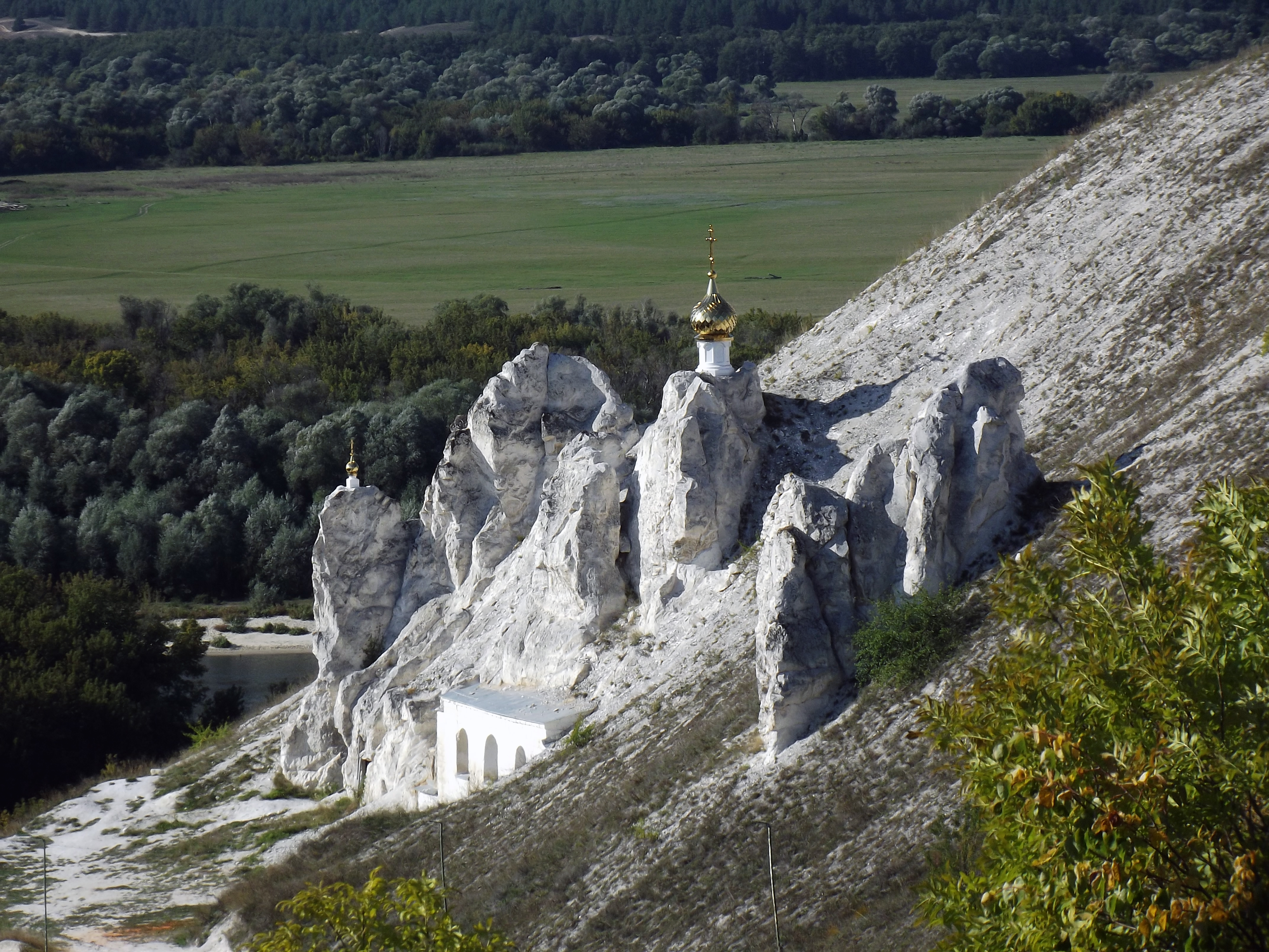 Divnogorskiy in honor of the Assumption of the Blessed Virgin Mary Monastery - Orthodox cave monastery